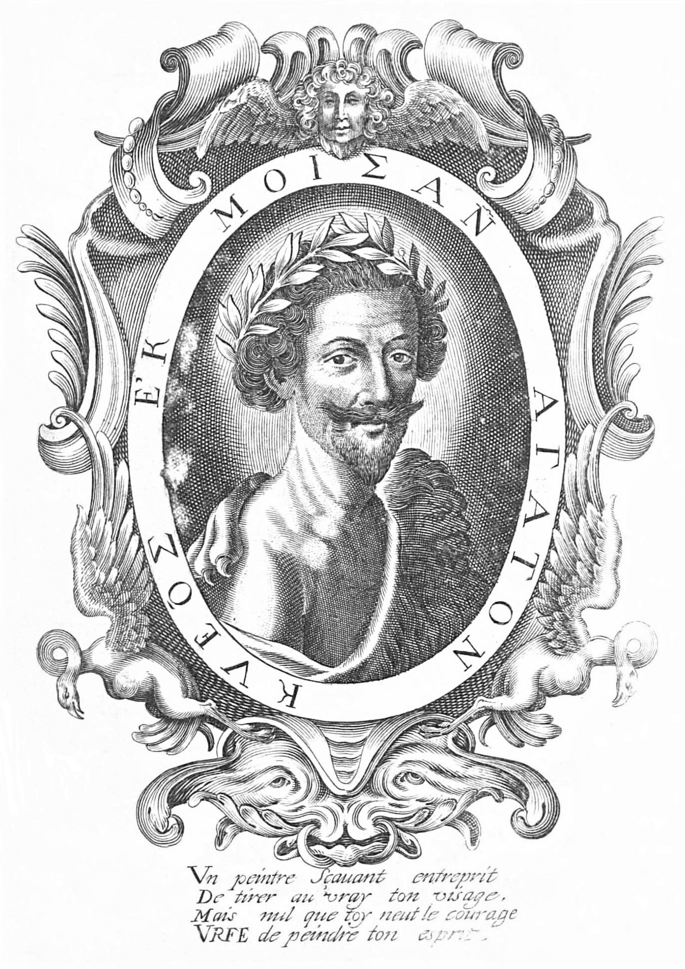 Contemporary portrait of French writer Honoré d'Urfé (1567-1625).